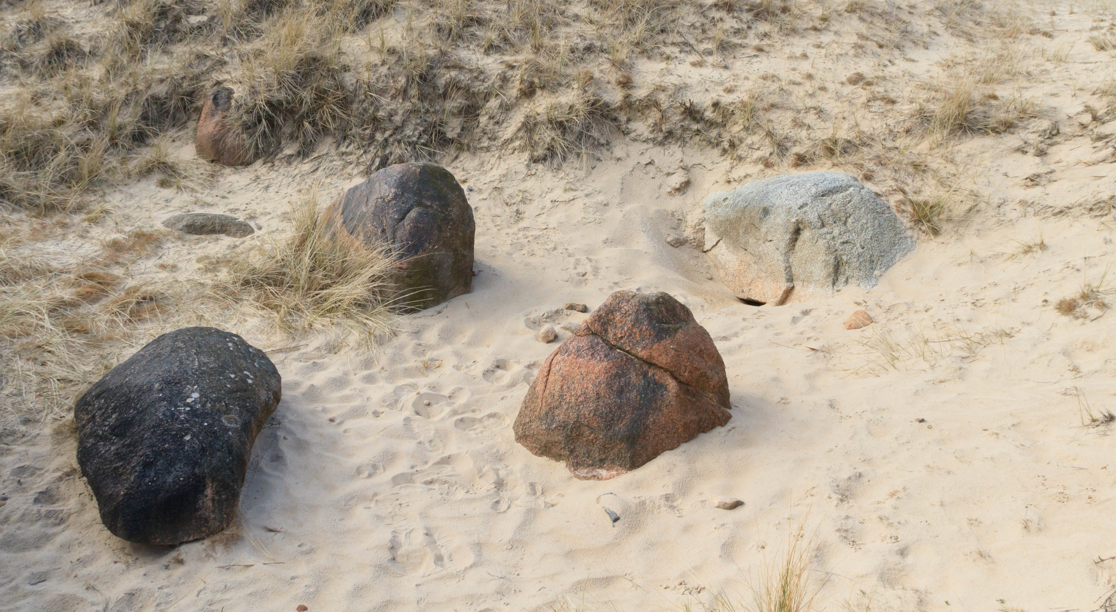 The making of this document was supported by the Community-Budget of Wikimedia Germany. Großsteingrab in den Dünen von Nebel